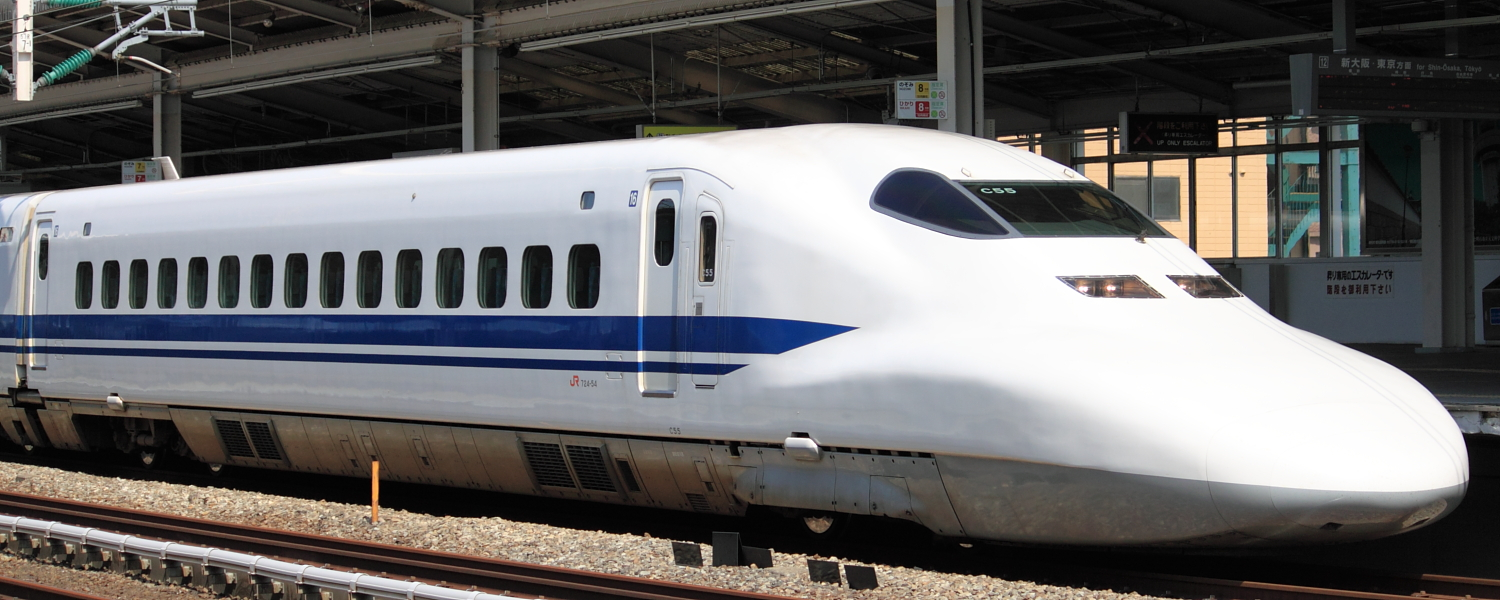 Shinkansen Series 700(724-54) in Nishi-Akashi Station